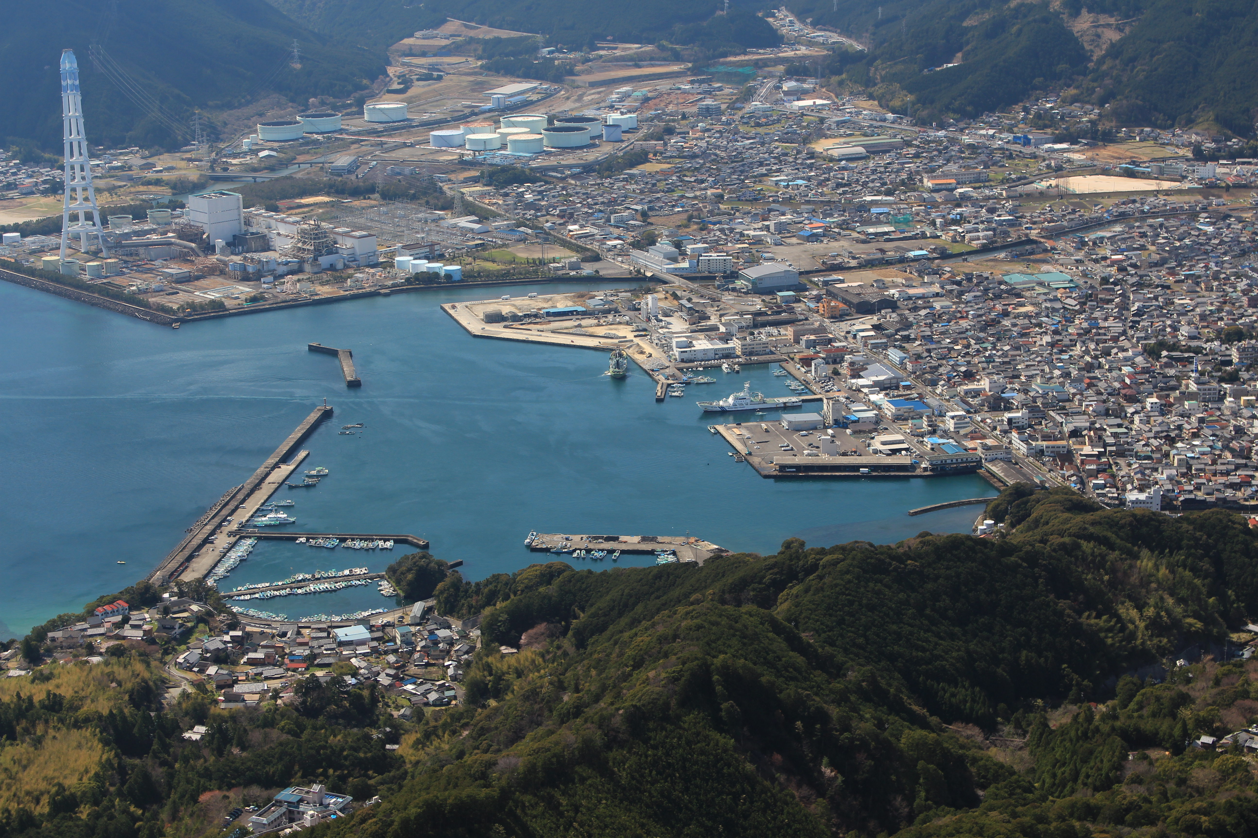 Port of Owase seen from Mount Tengura in Owase, Mie prefecture, Japan.